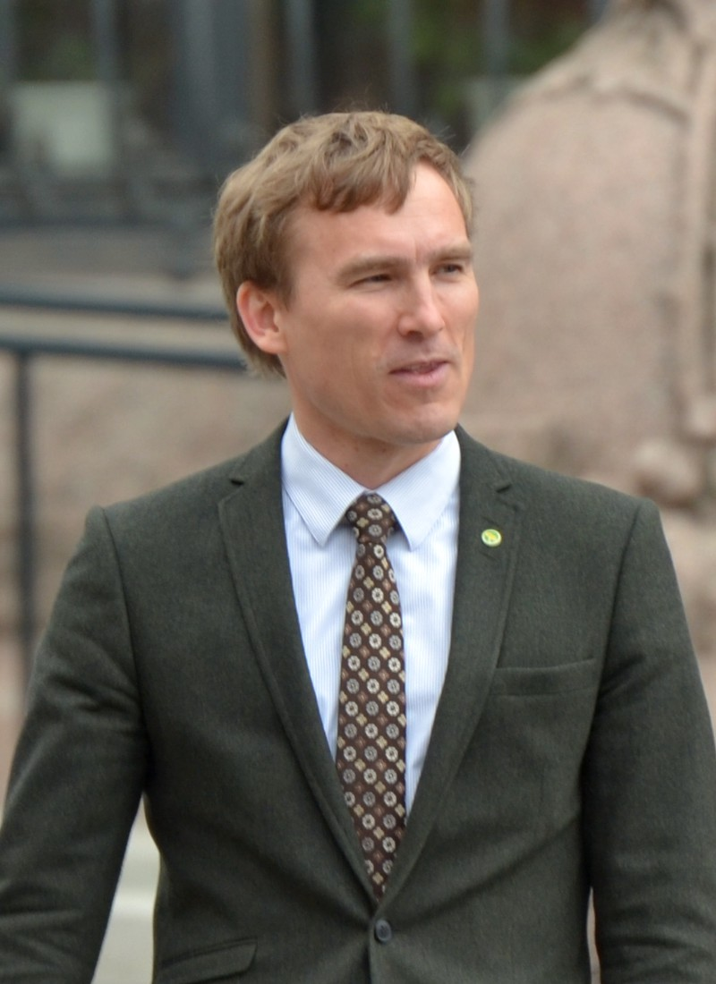 Per Ängquist, chief of staff for the Green Party.